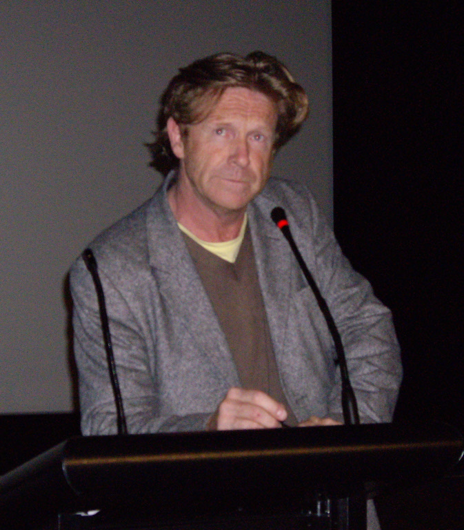 Oscar and BAFTA award-winning cinematographer Anthony Dod Mantle at a Q and A session for the Palace Cinema screening of 'Slumdog Millionaire' in Adelaide. Photograph by Linh Chameleon.